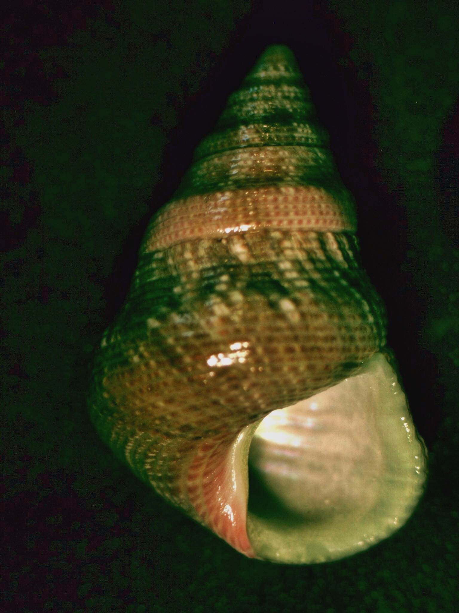 Prothalotia ramburi (Crosse, H., 1864) (syn.: Cantharidus ramburi H. Crosse, 1864); family Trochidae; South Australia